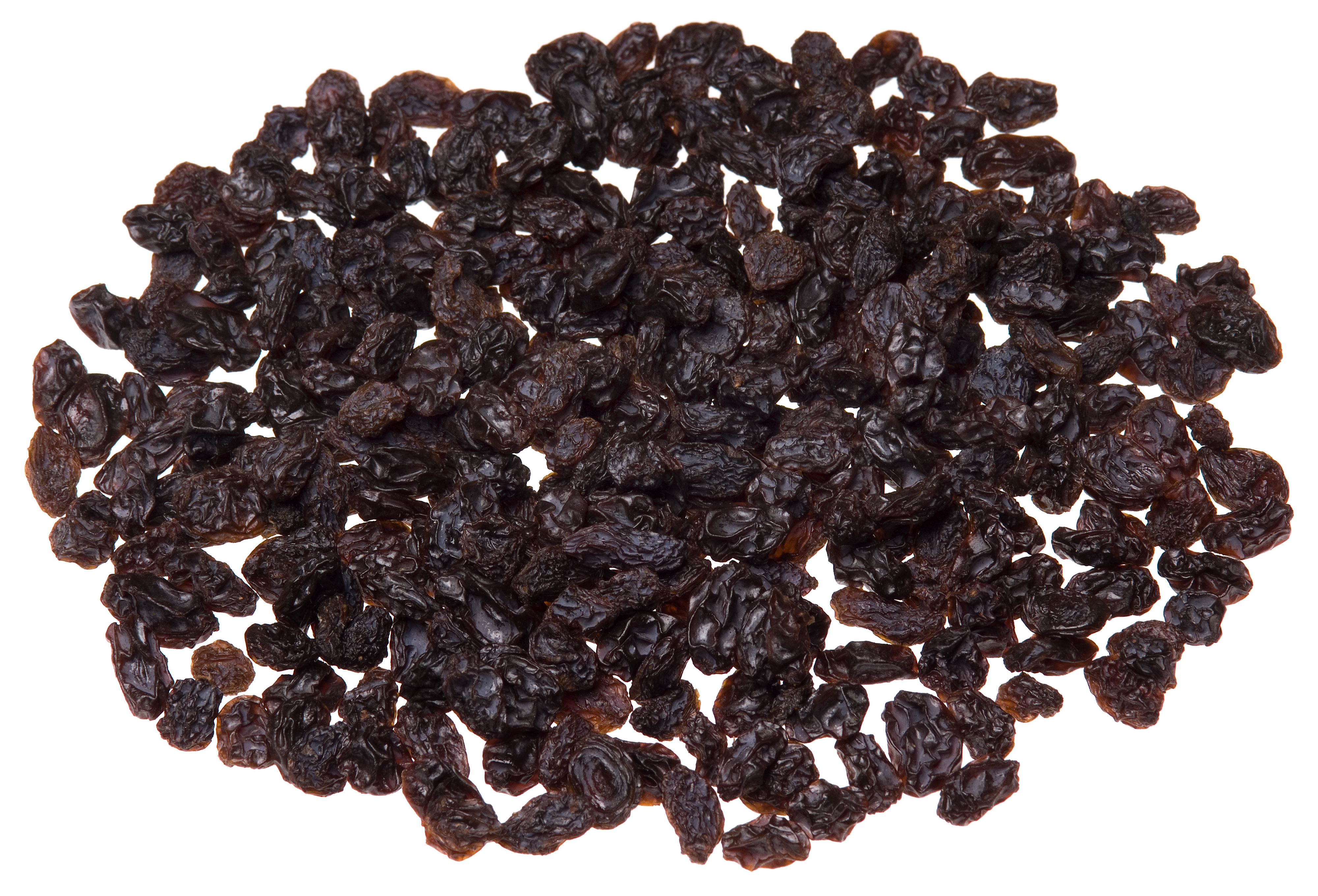 A pile of Sunmaid raisins.